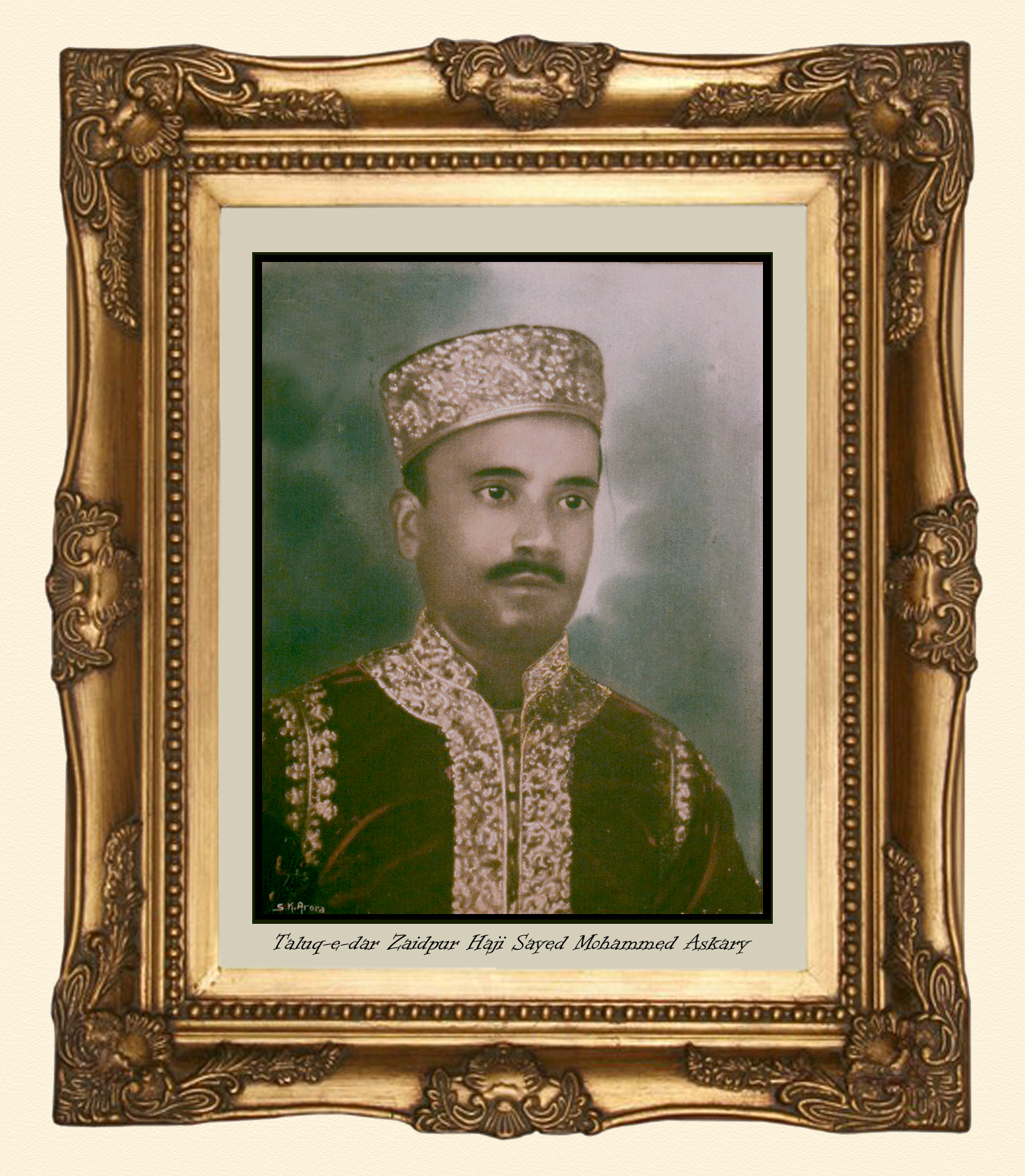 Haji Sayed Mohammed Askary Taluq e daar of Zaidpur